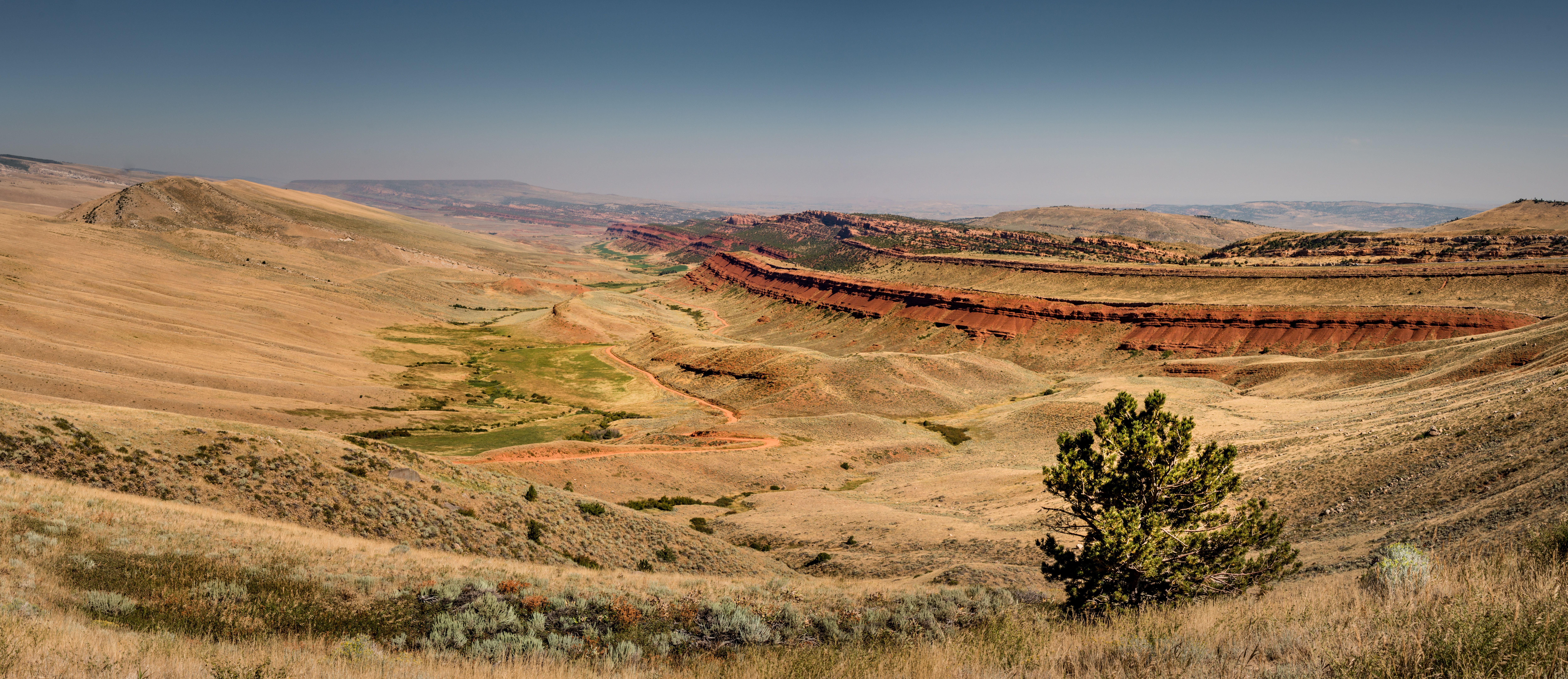 near Lander, Wyoming. High-resolution image.